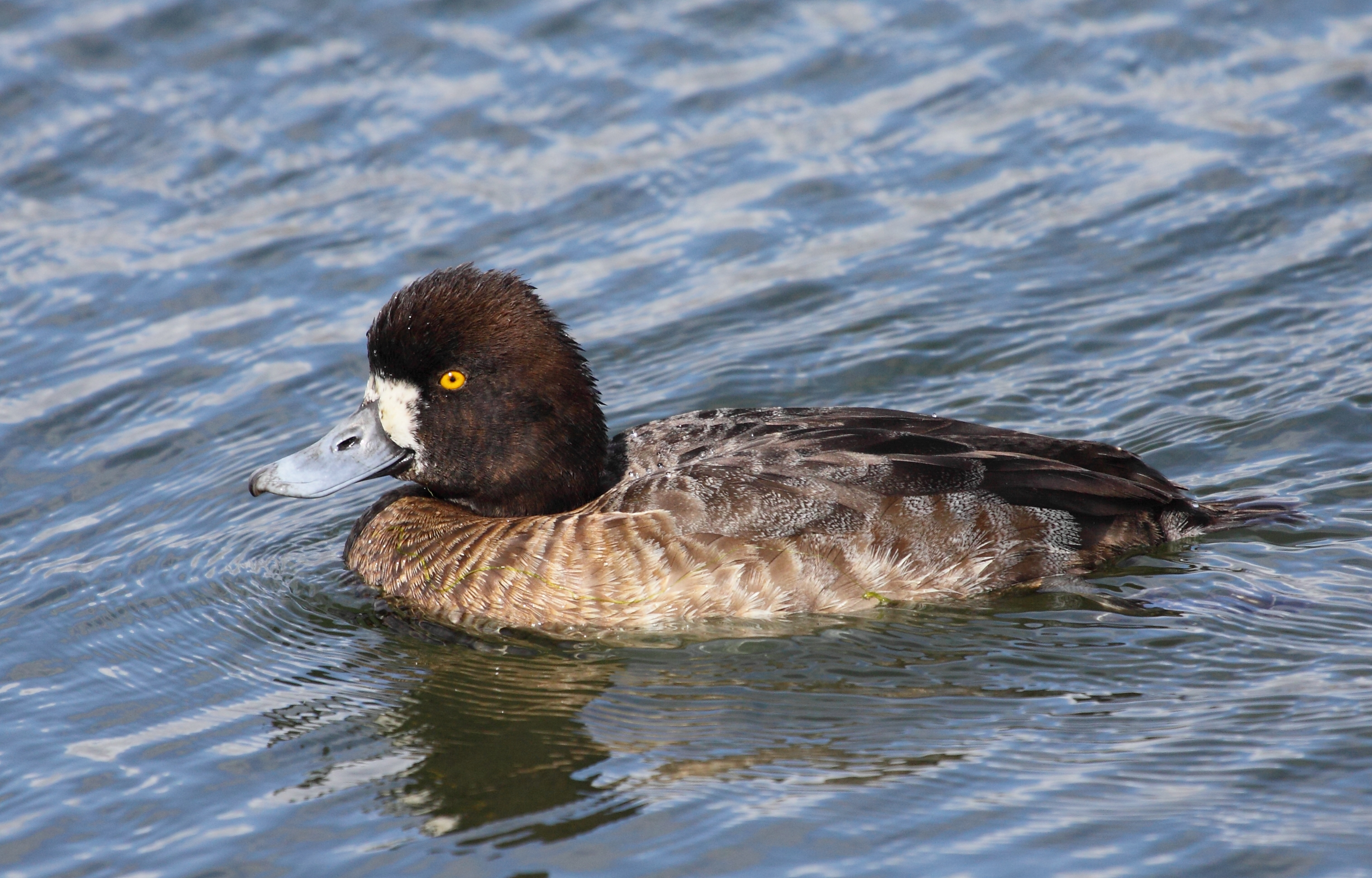 Adult female Greater Scaup (Aythya marila)